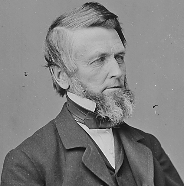 Ambrose W. Clark, Congressman from New York